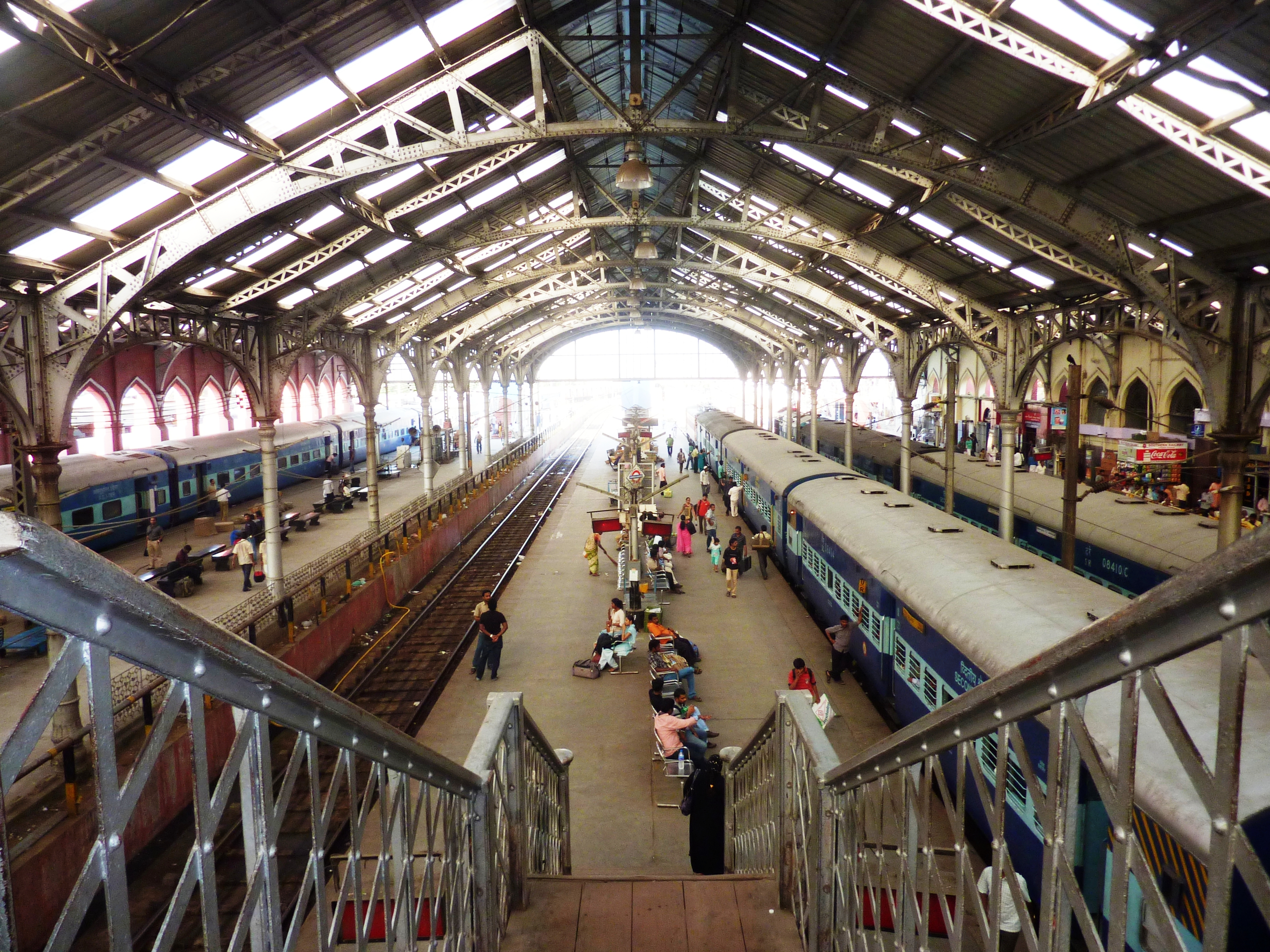 Interior view of the Chennai Egmore station.